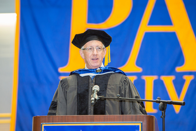 Photo of Barry Karberg speaking at 2015 Pace (Westchester) commencement.